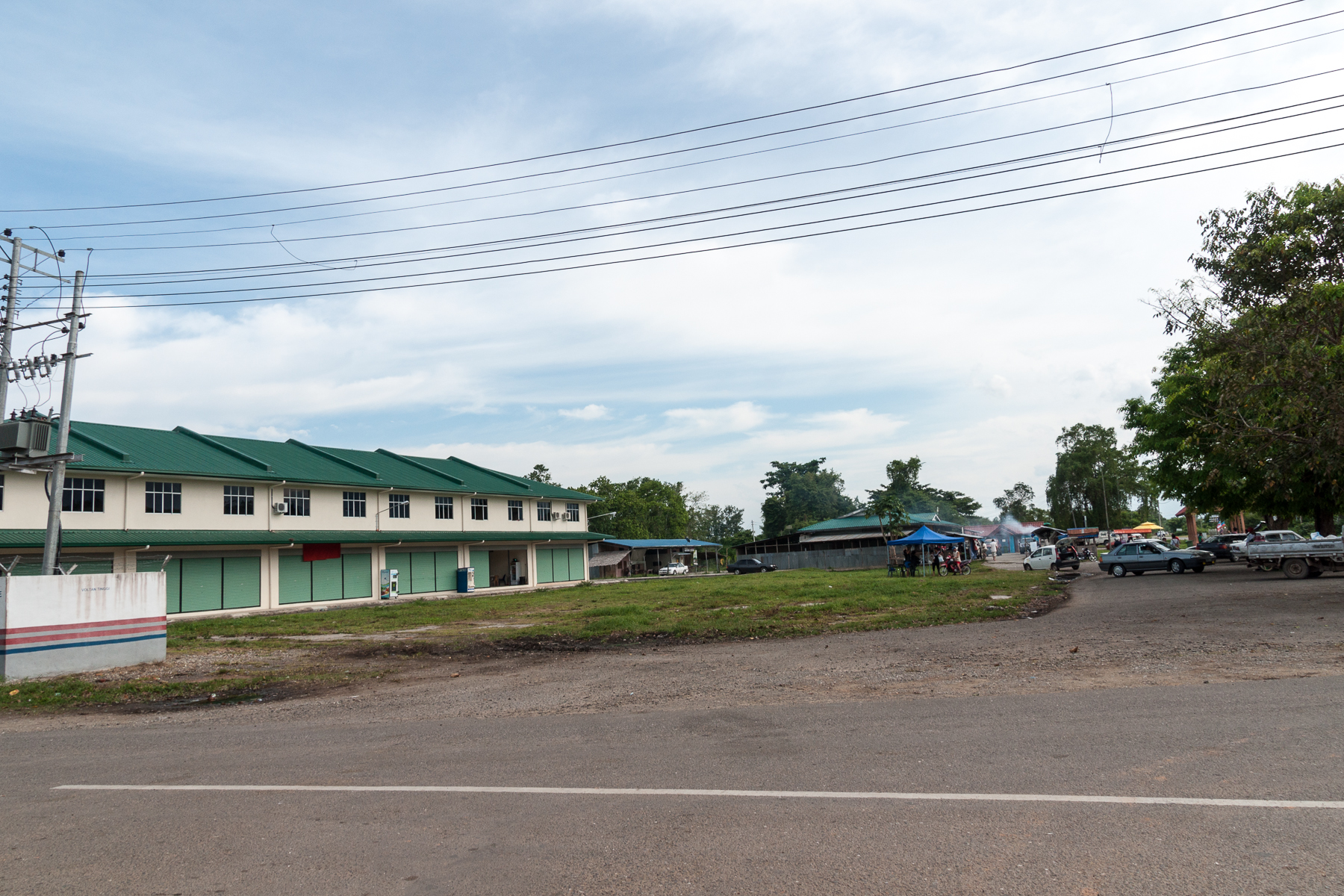 Bingkor, Sabah: Market Place